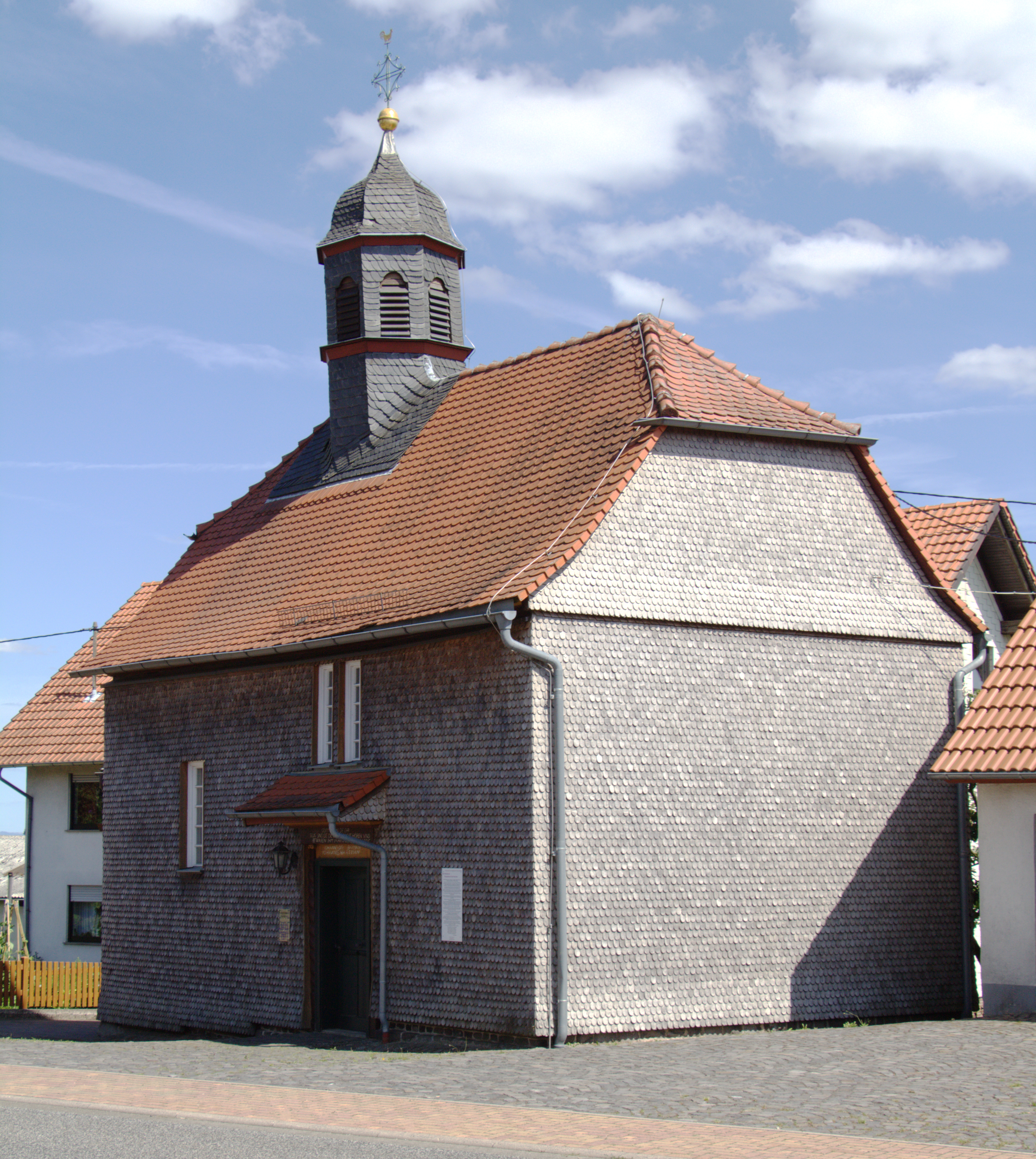 Protestant Church in Gunzenau Freiensteinau, Hesse, Germany